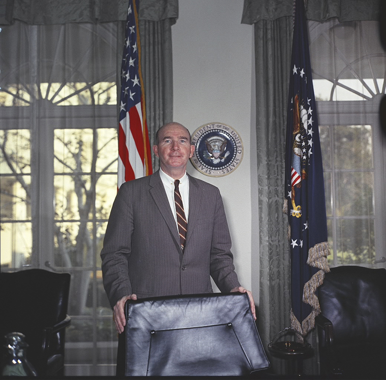 KN-C25018 Special Assistant to the President David F. Powers, 19 November 1962. White House, Cabinet Room. Photograph by Robert Knudsen, White House, in the John F. Kennedy Presidential Library and Museum, Boston.